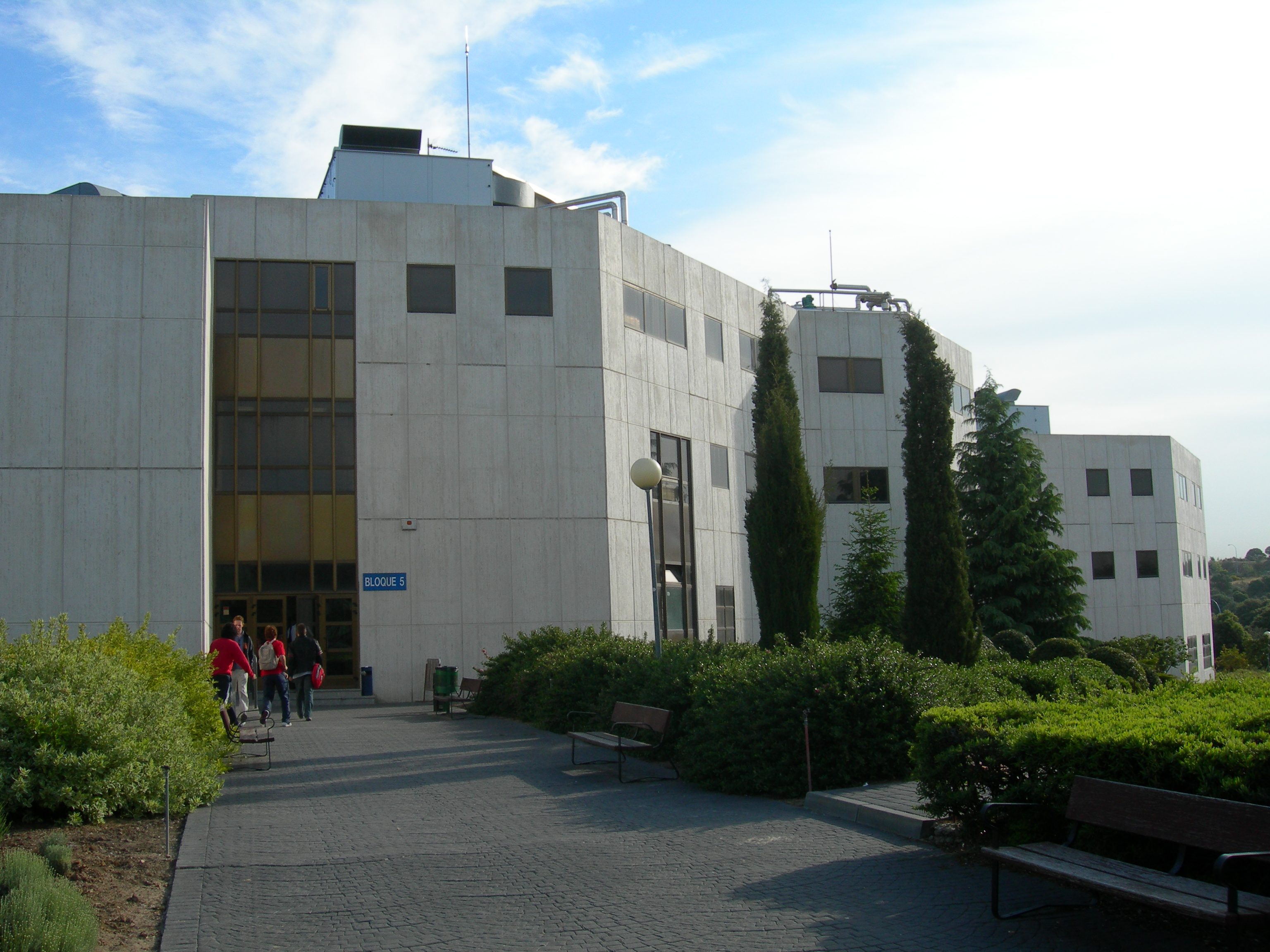 Technical University of Madrid (UPM), Spain. Computer Science Faculty. "Block 5"